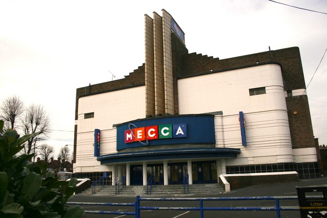 Mecca bingo hall, Kings Road, Kingstanding, Birmingham: built in 1935 as a cinema, converted to a bingo hall in 1962